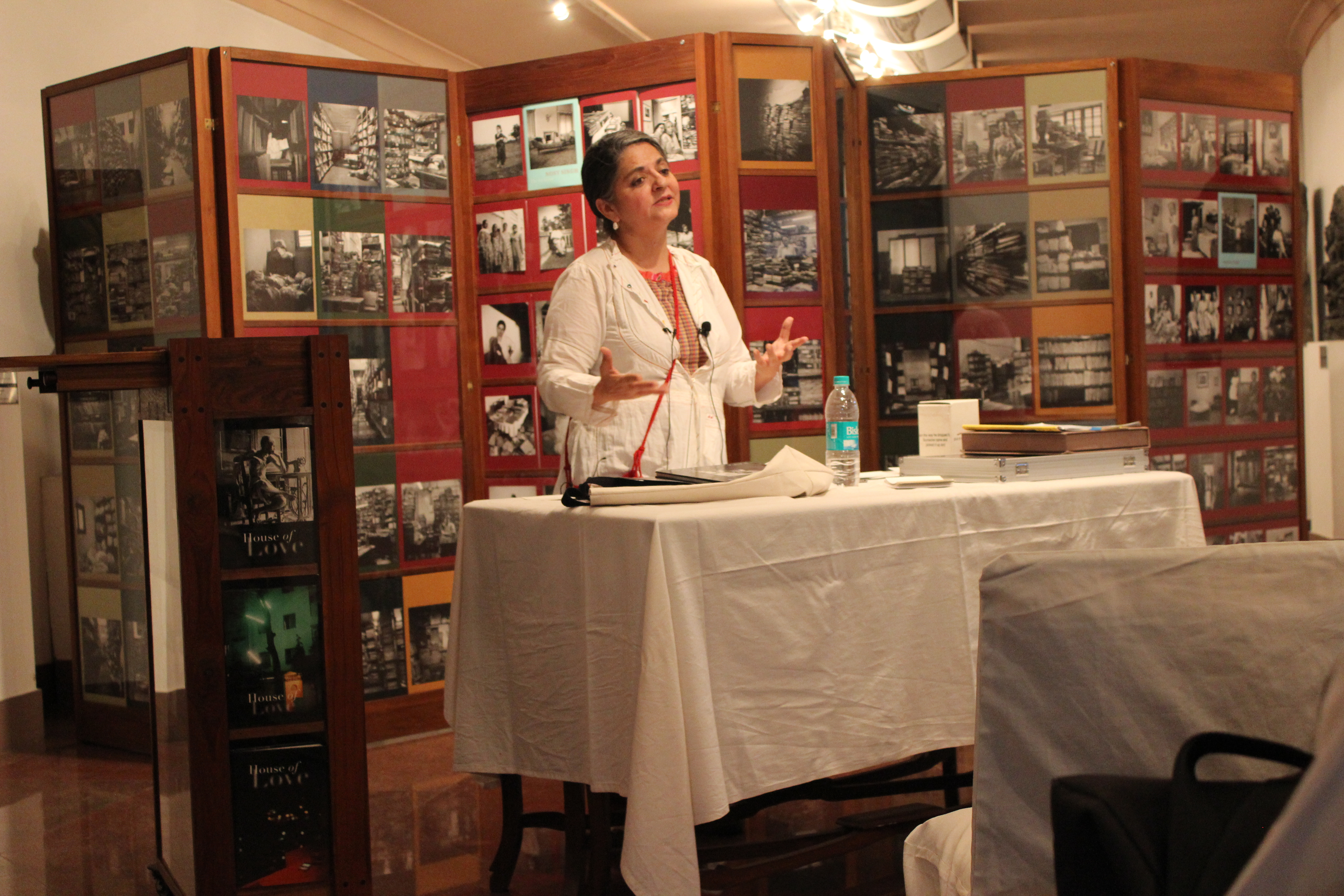 Dayanita Singh in the National Museum, New Delhi